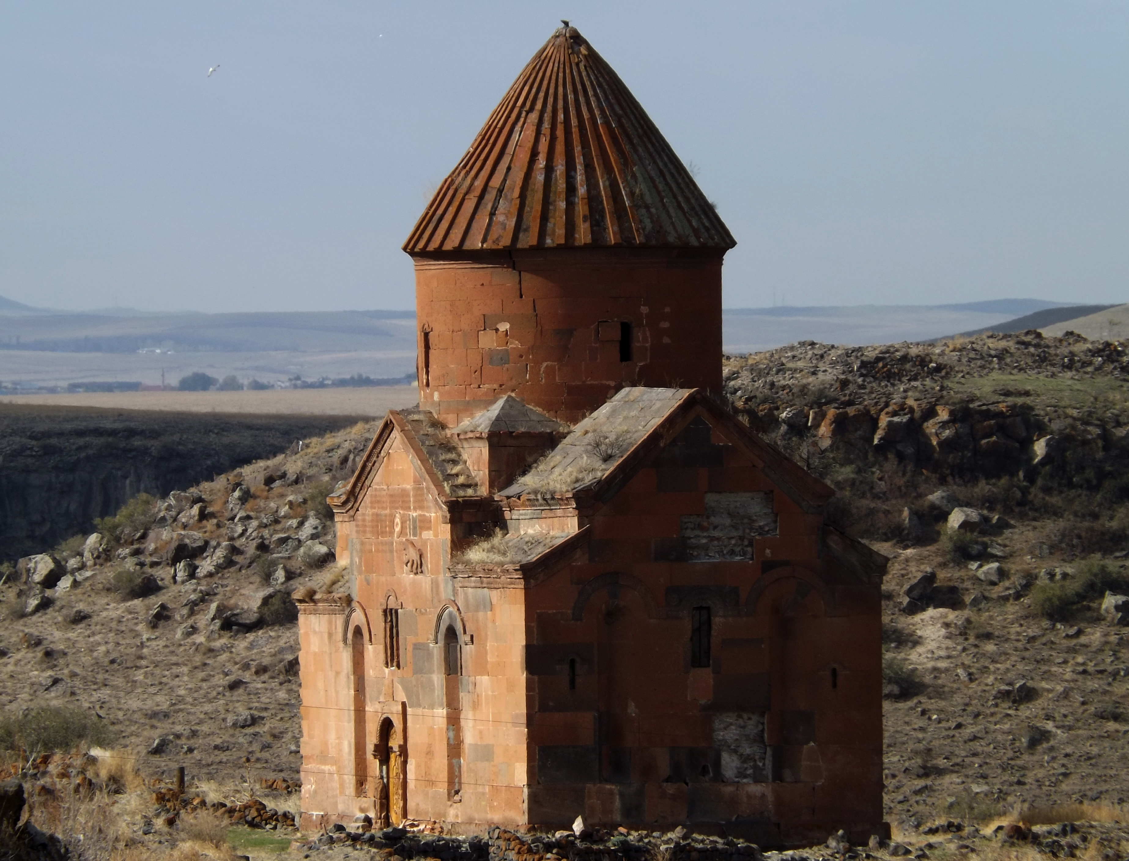 Haykadzor church in Shirak province, Armenia 59/8